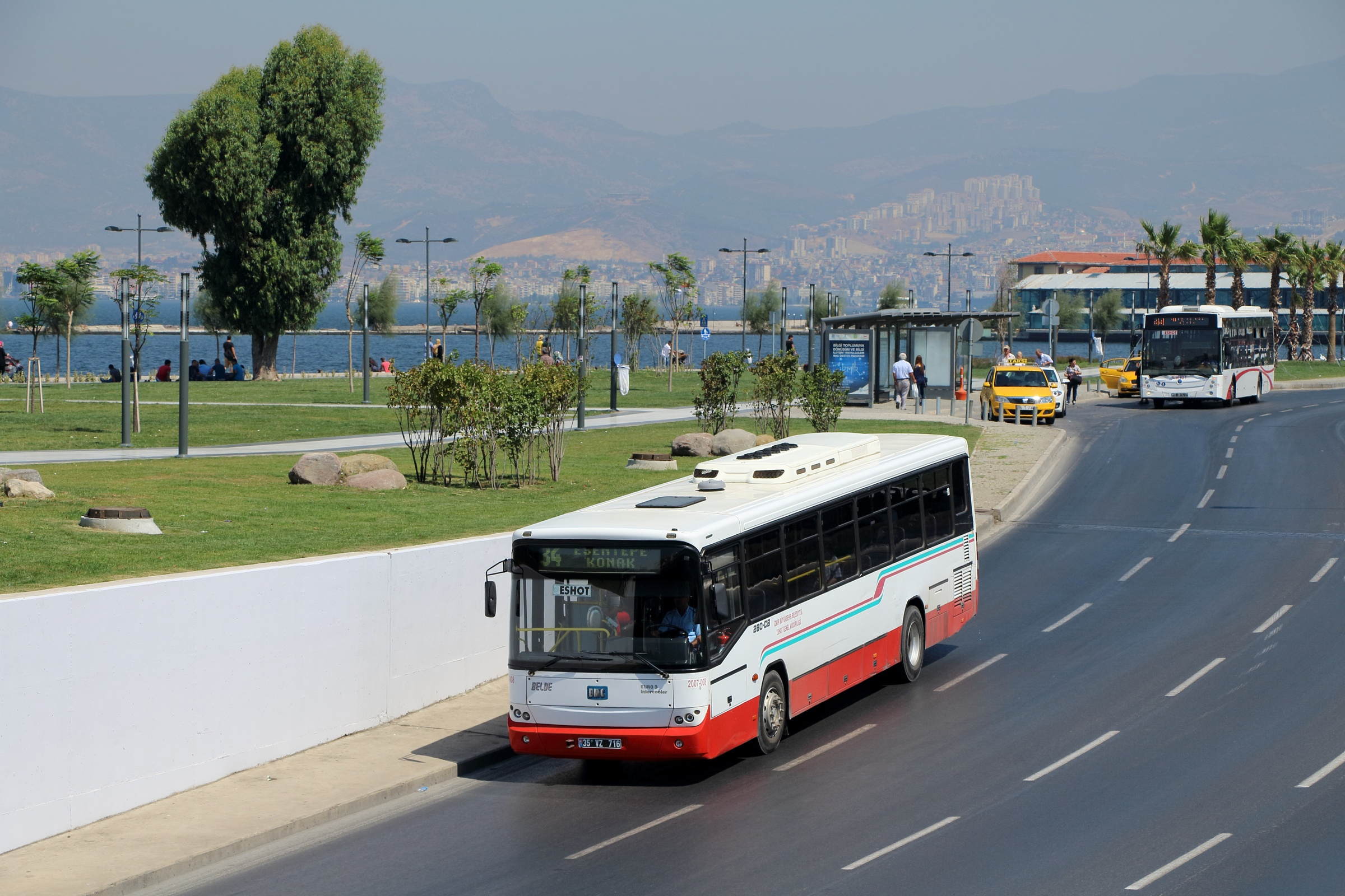 Bus in Izmir, Turkey (BMC Belde 280 CB)